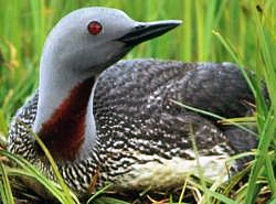 Red-throated Loon (Gavia stellata) photographed in the Alaska Maritime National Wildlife Refuge